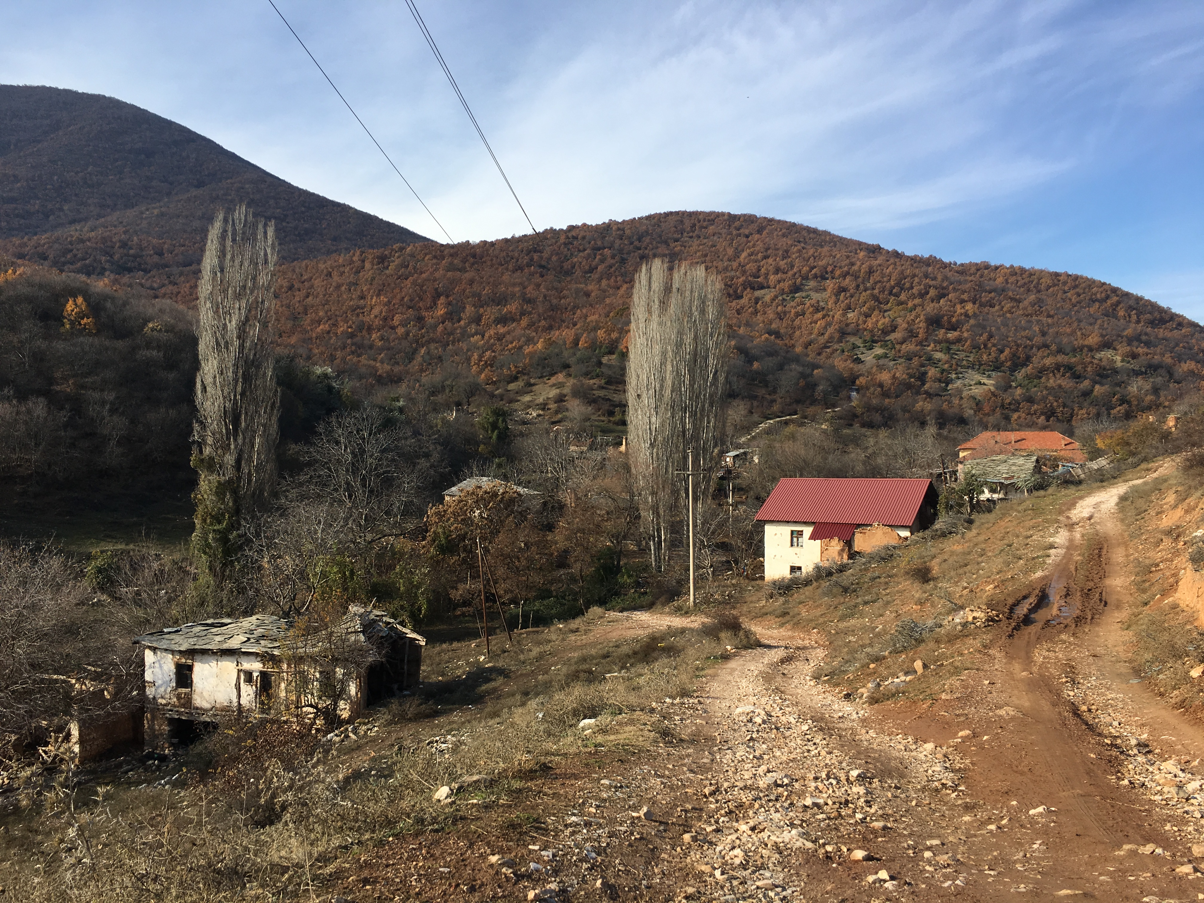 View of the village of Rakle